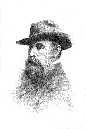 United States author, poet and folklorist Charles Godfrey Leland.